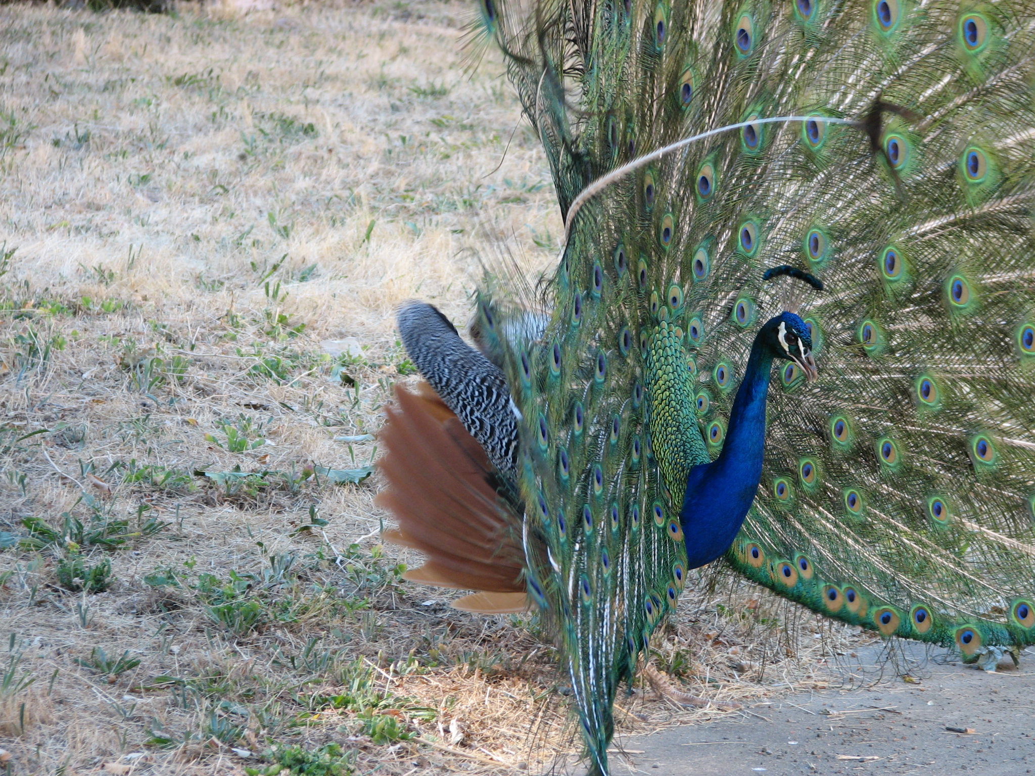 A male peacock strutting its feathers in Ukiah, California.